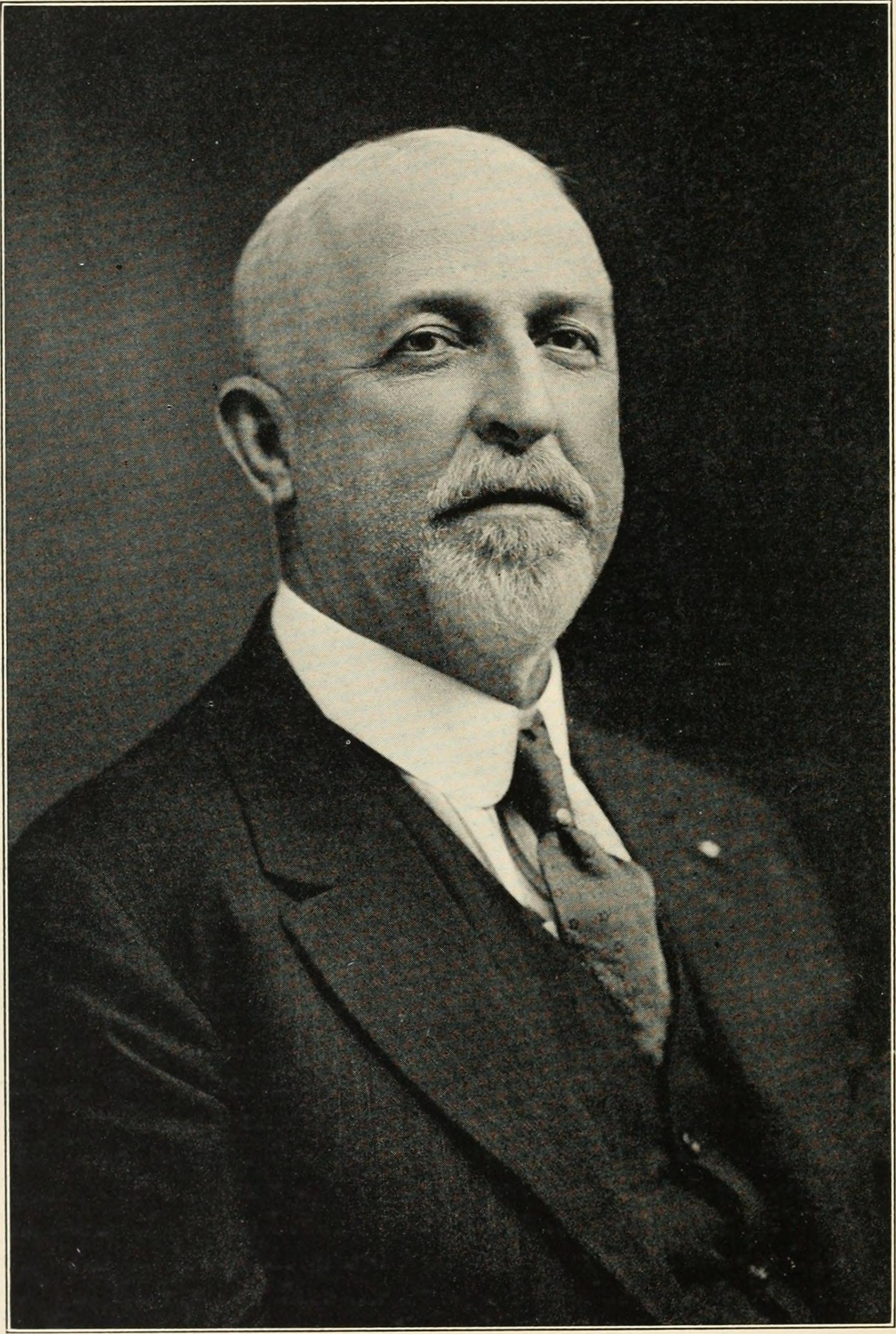 This is a picture of Frank P. Van Pelt who was president of the New York Sandy Hook Pilots' Association.